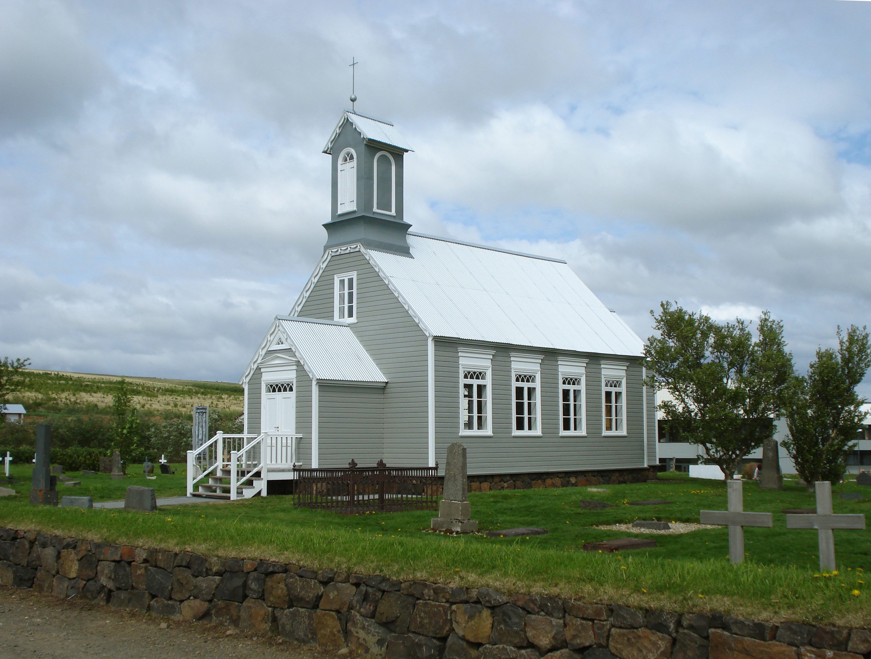 Old Church, Reykholt, Iceland